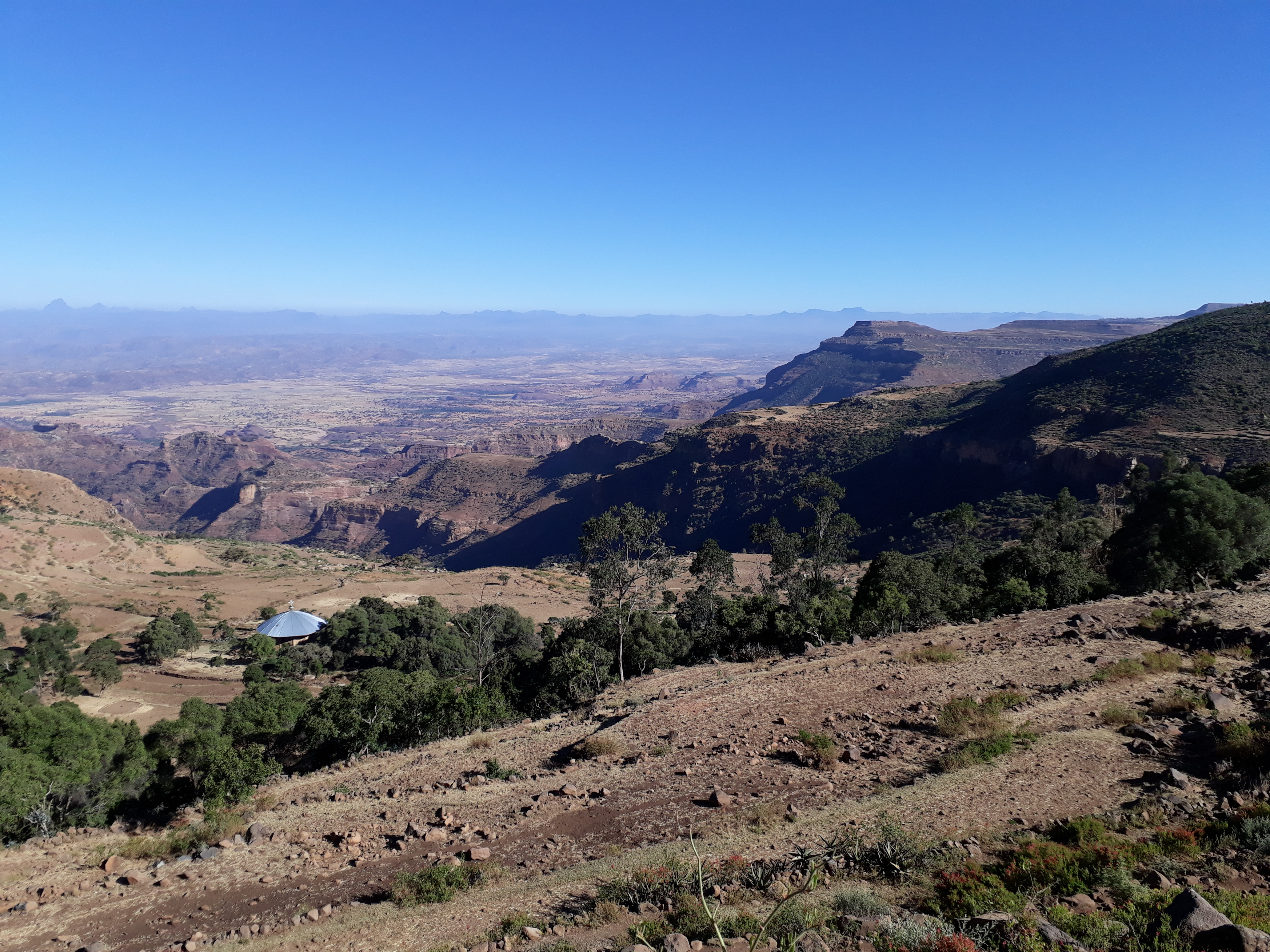 Kidane Mihret gorge